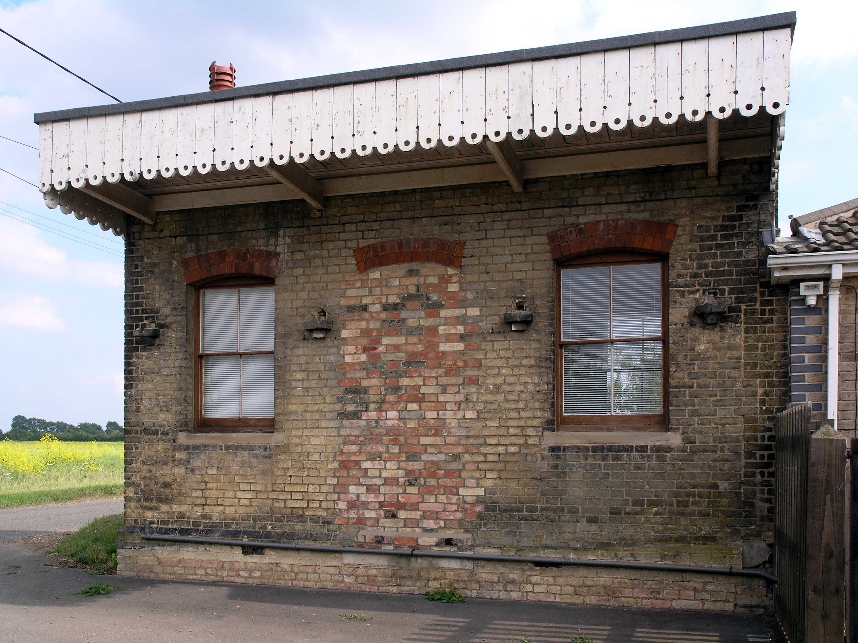 Stretham railway station on the Ely and St Ives Railway closed 1964. View looking south